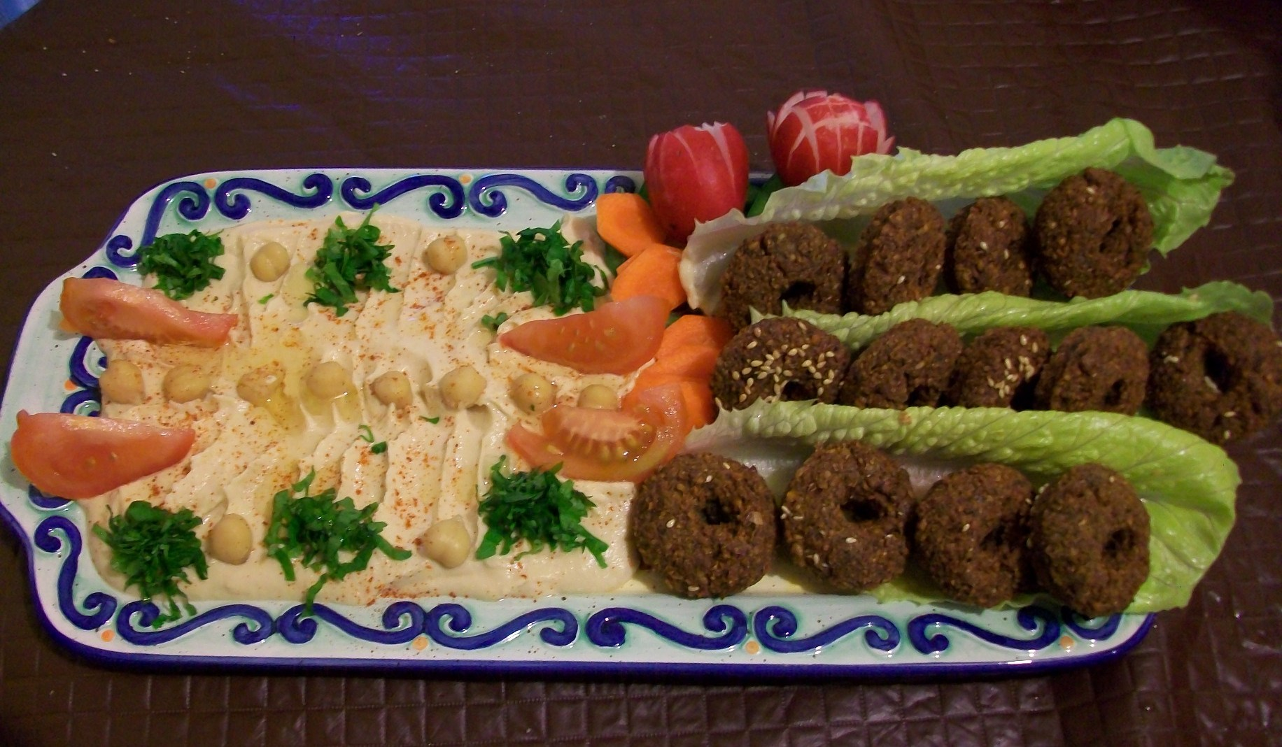 syrianstylebreakfast falafel and humus